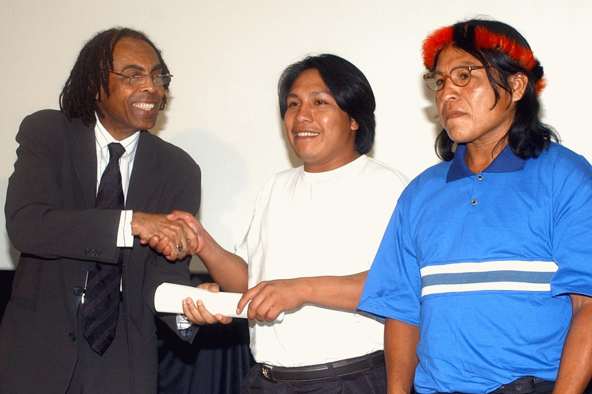 Brasilia, 02/12/2013 - Brazilian Minister of Culture, Gilberto Gil, delivering to Jawapuku and Kumaré (on behalf of Wajapi people) the Unesco Certificate of Protection to the Oral and Graphic Expressions of the Wajapi as Intangible Heritage of Humanity